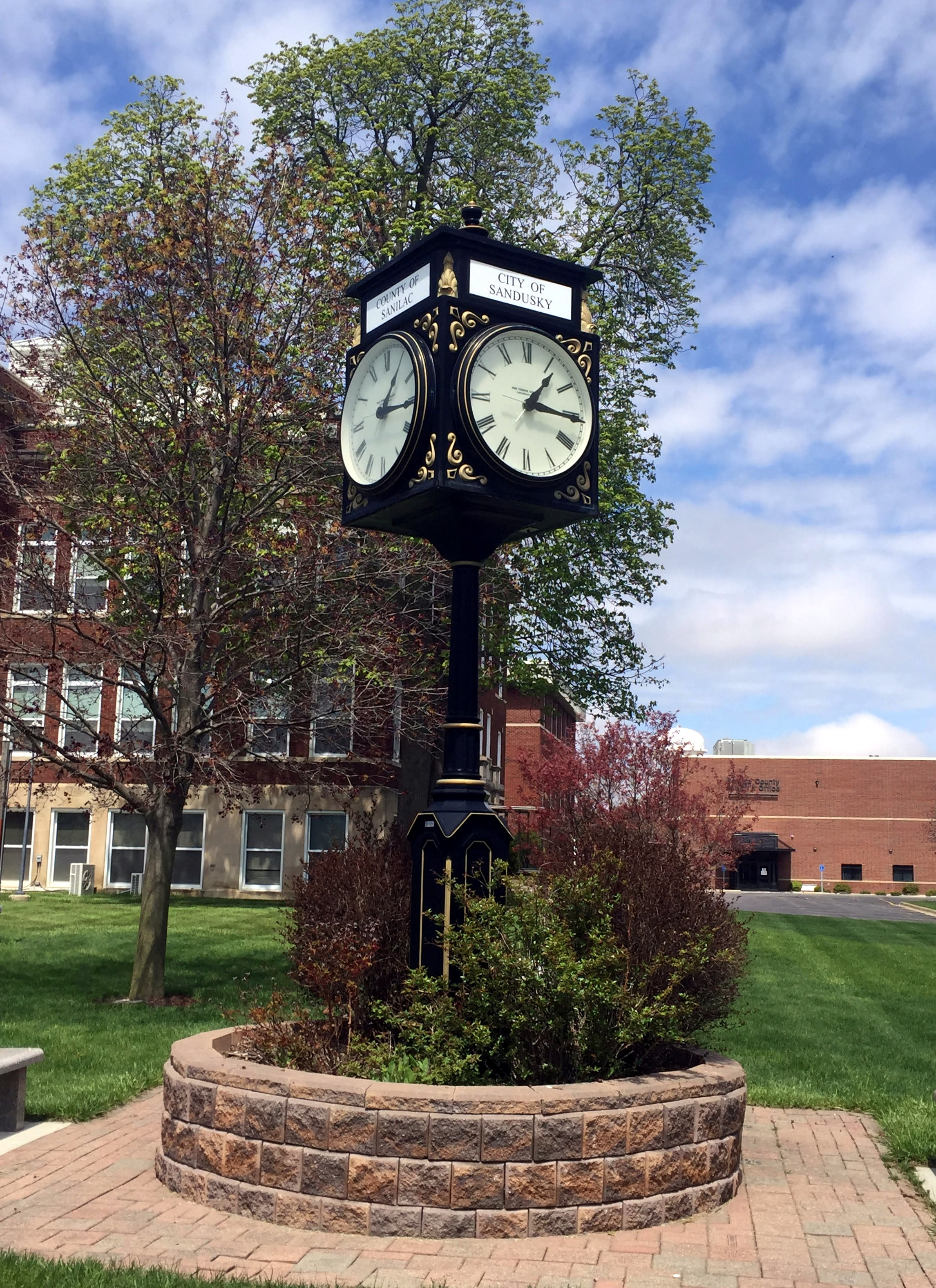 Street clock in front of the Sanilac County Courthouse in Sandusky, Michigan